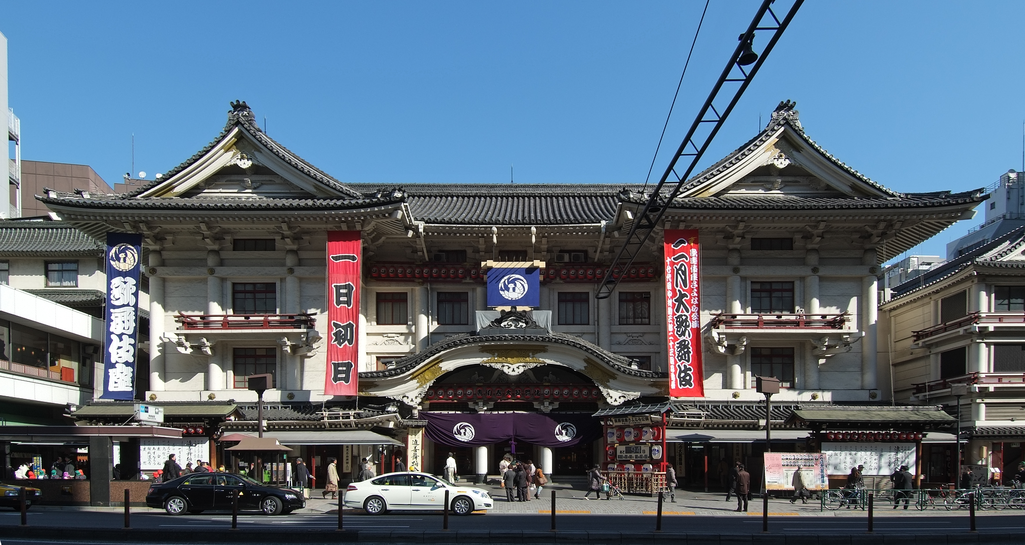 Kabuki-za theater, at Chuo-ku Tokyo Japan